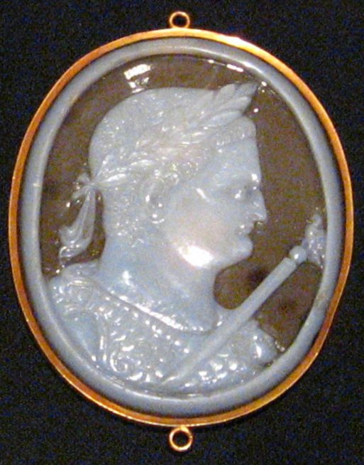 Photo of a cameo with the head of Titus on it from the 2nd century AD made from Chalcedony. Museo Archeologico Nazionale, Florence. Photo taken by Steve Karg